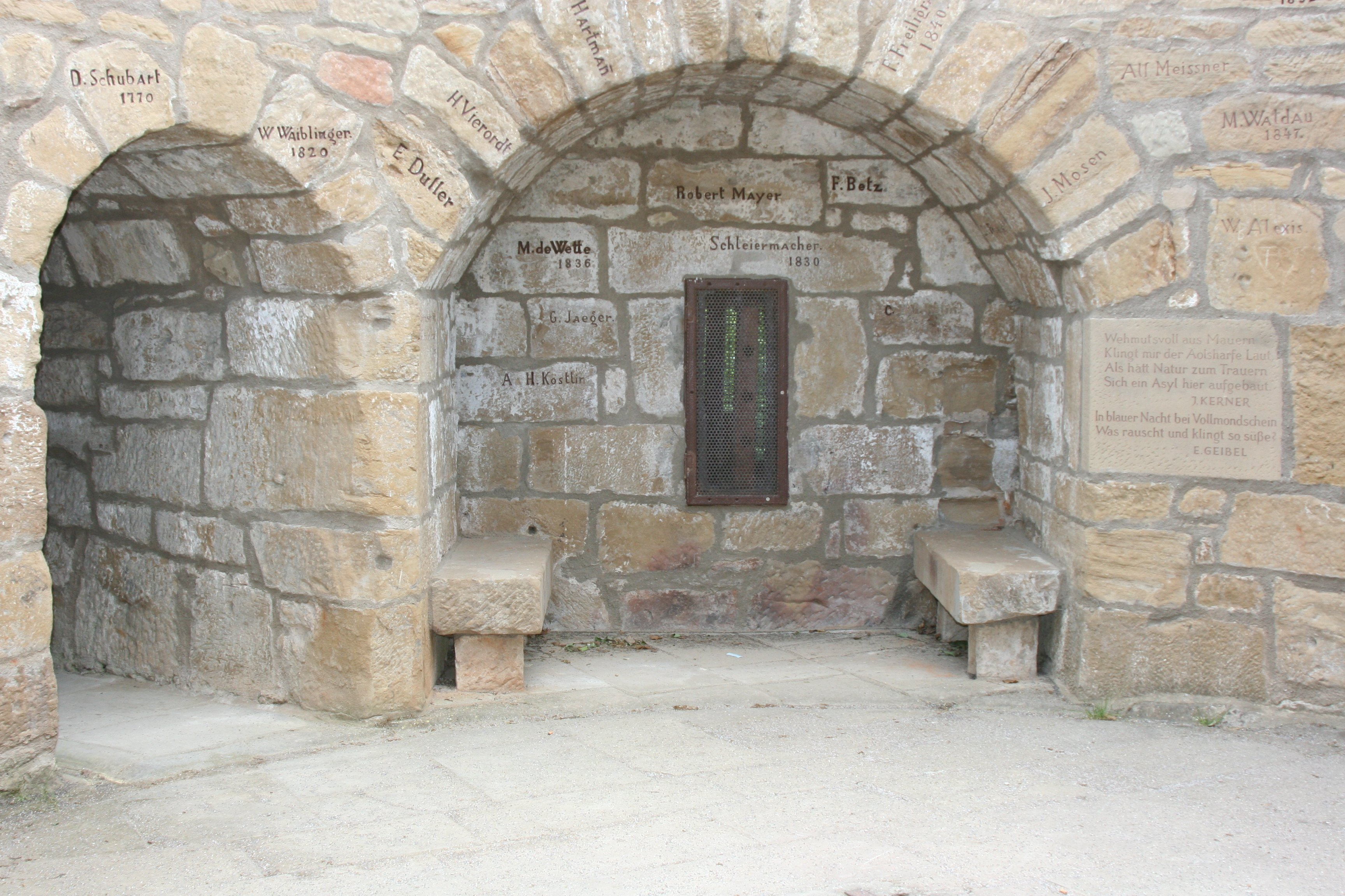 Burgruine Weibertreu. Inside of the artillery tower